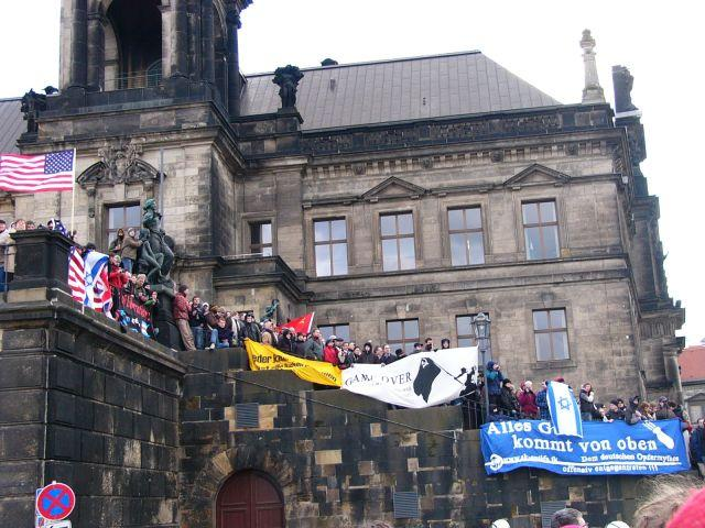 antifascist protesters in Dresden on February 13 2005 (60th anniversary)